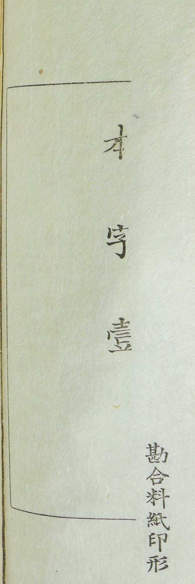 KNGO Tally to trade between China-Japan in 15th century